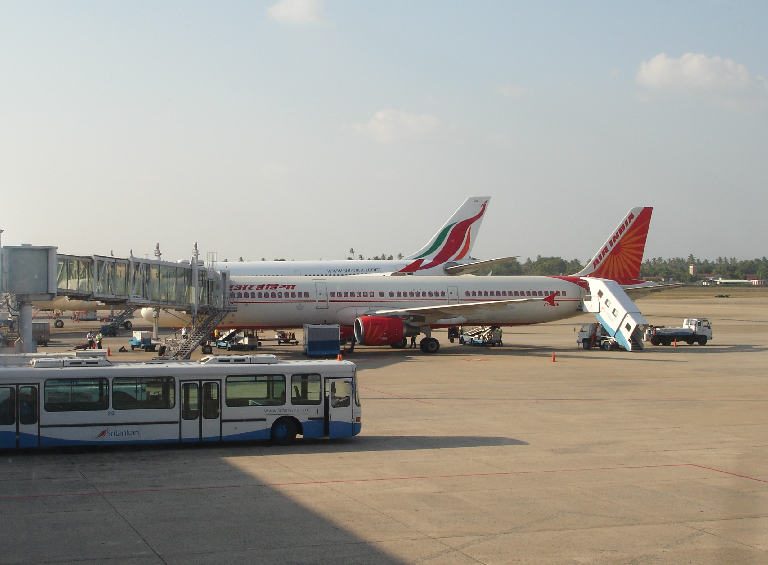 An Airbus A321 or AI and A340 of UL